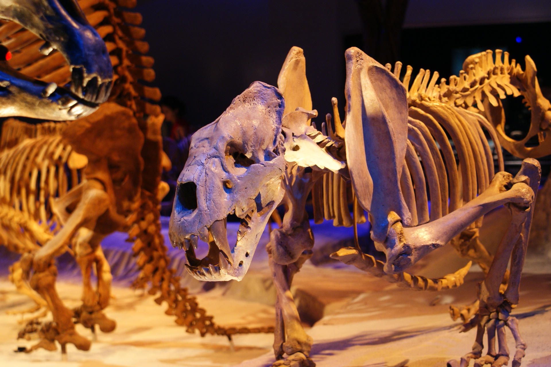 Florida Museum of Natural History Fossil Hall at the University of Florida, Xenosmilus hodsonae